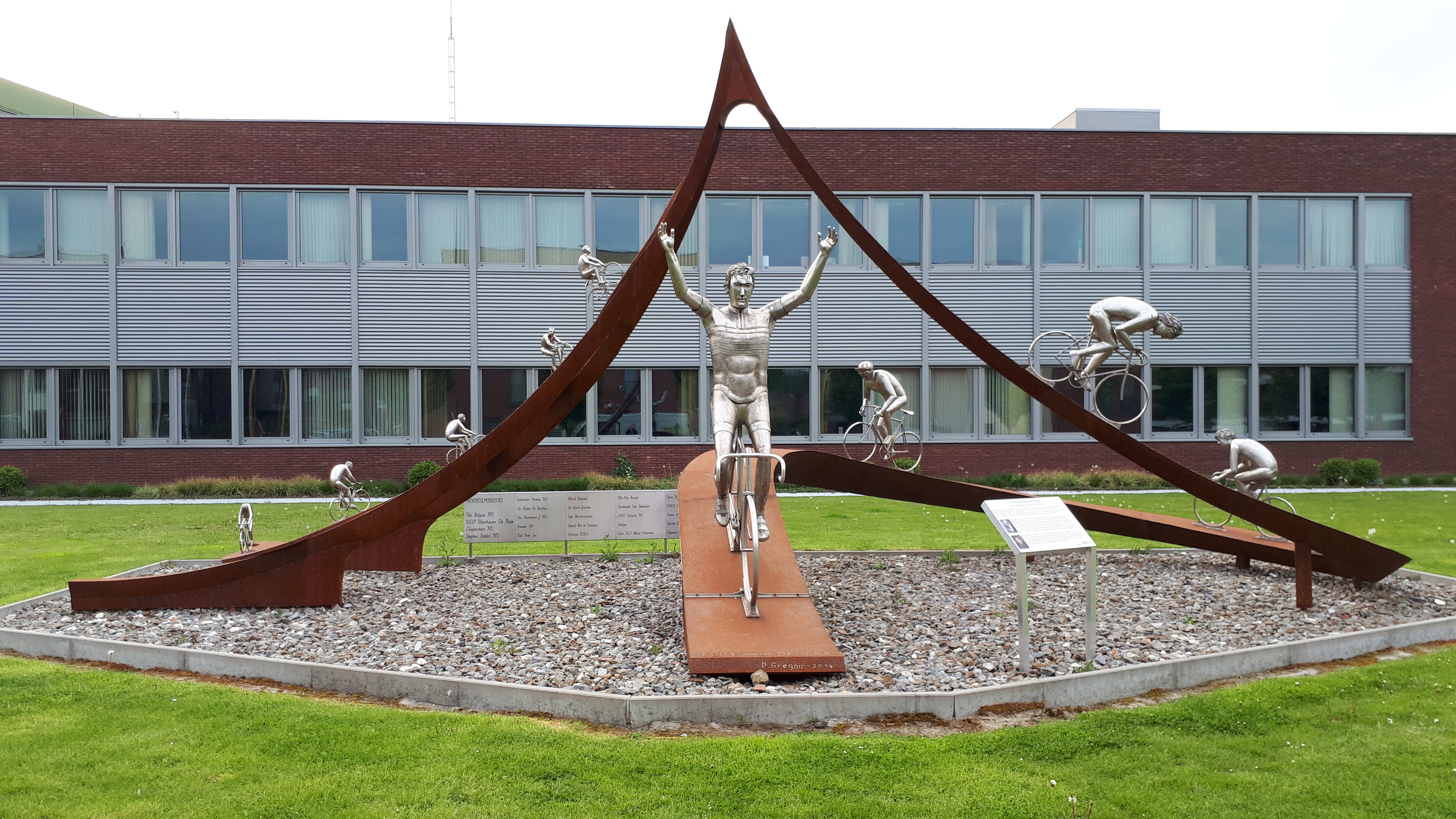 Monument Eddy Merckx in Wolvertem